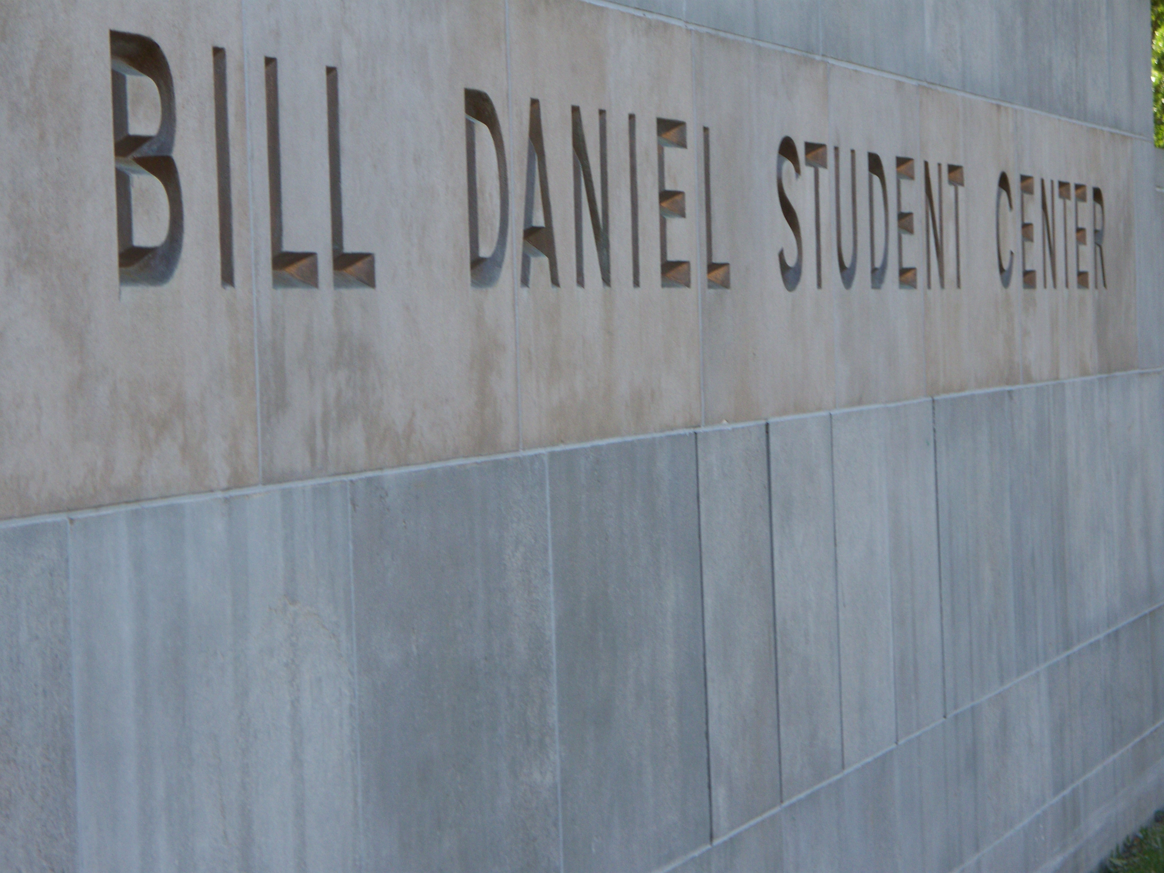 Entrance to the SUB.